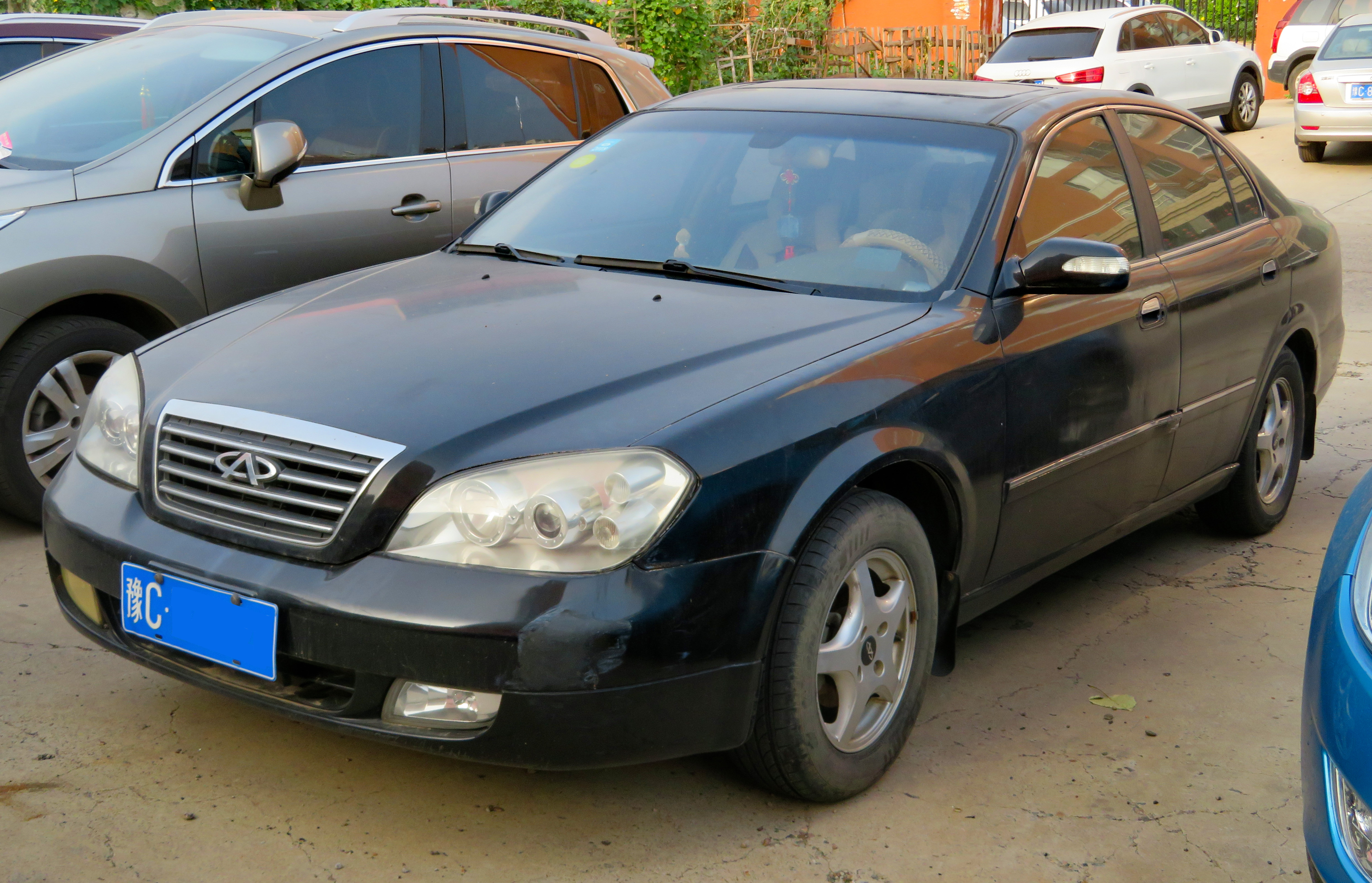 A 2006 Chery Eastar (facelift) photographed in Xigong District, Luoyang, Henan province, China